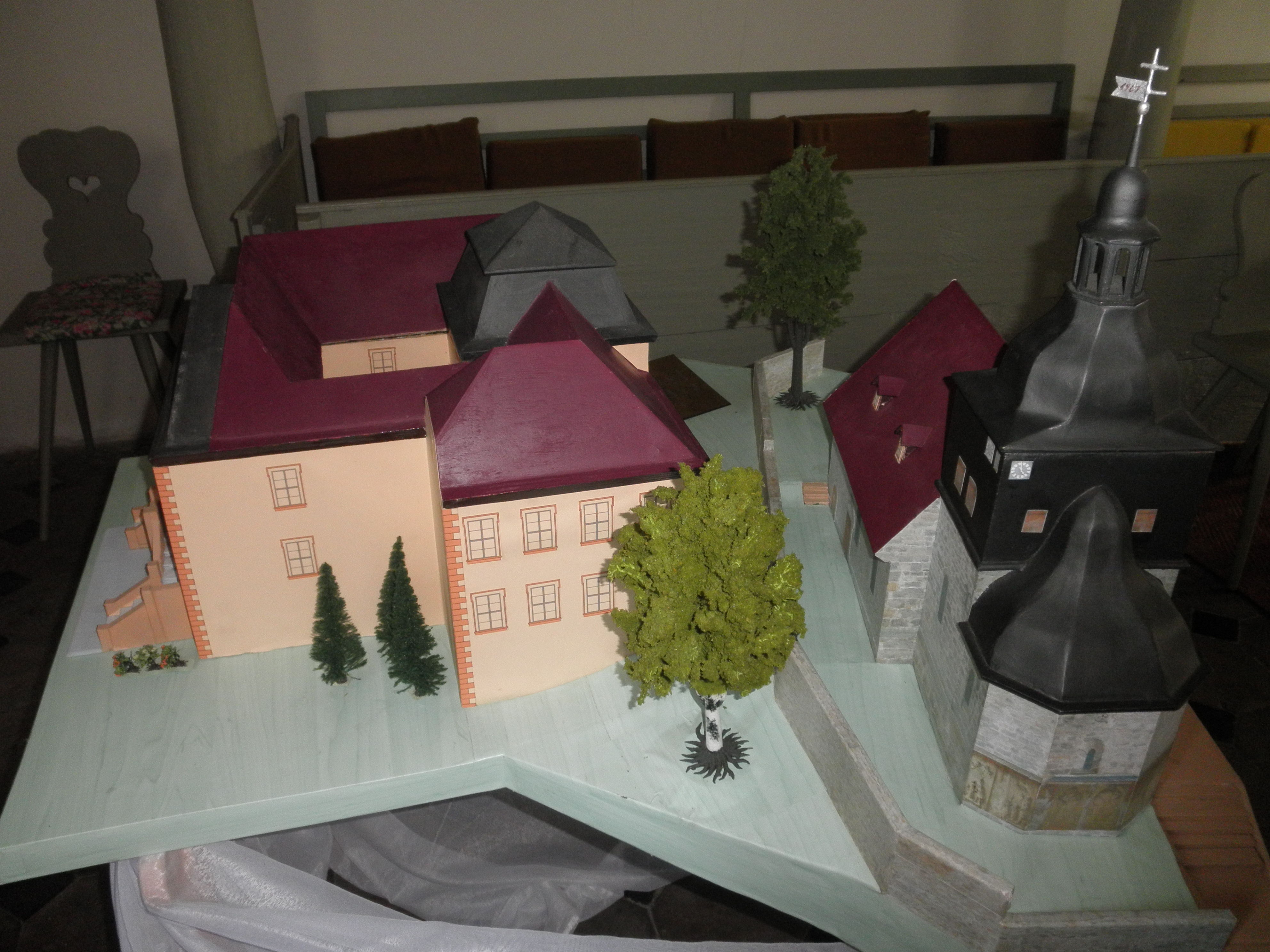 Former Castle and Church in Griesheim (Thuringia) Model